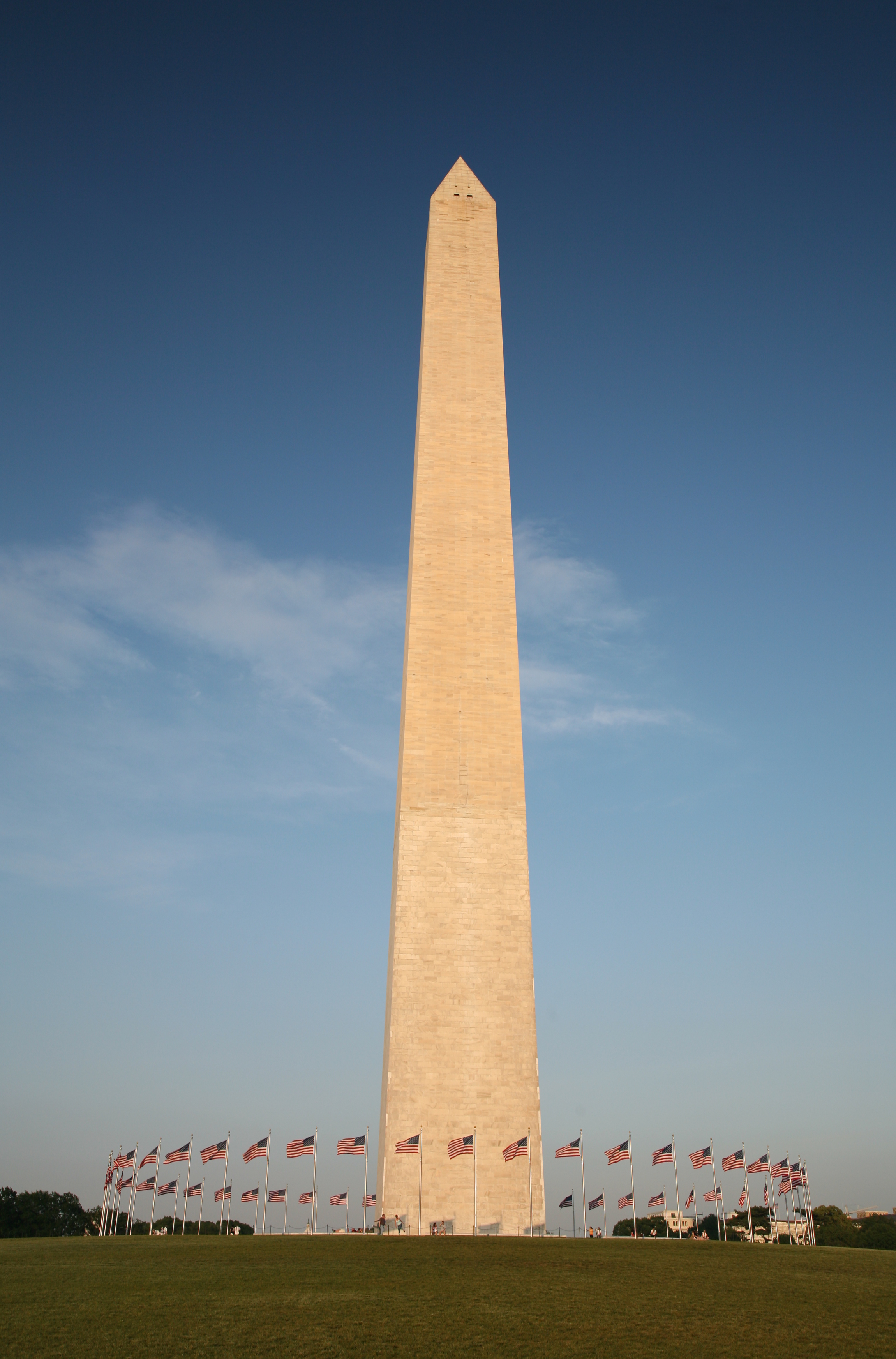 Washington Monument, Washington, D.C.